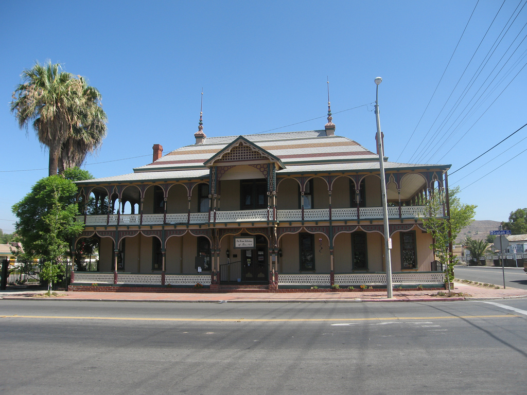 The Lake Elsinore Bath House, also know as "The Chimes."